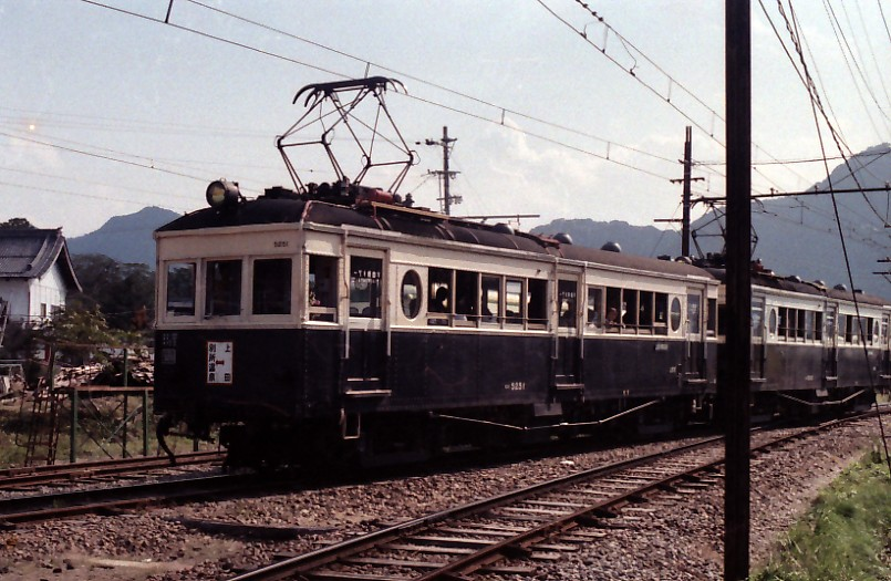 Ueda Kotsu, Ueda Dentetsu (or Electric Railway) at present. Electric tractions number 5251 and the another. The voltage of overhead wire was DC 750V before Sep. 30, 1986.